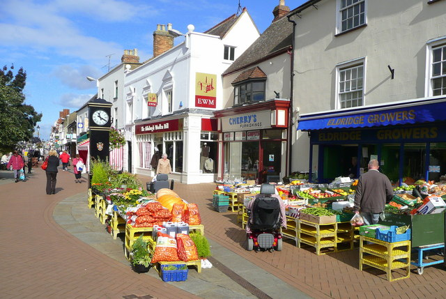 Greengrocer in Sheep Street, Bicester, Oxfordshire. 1: Looking north-west along the street.